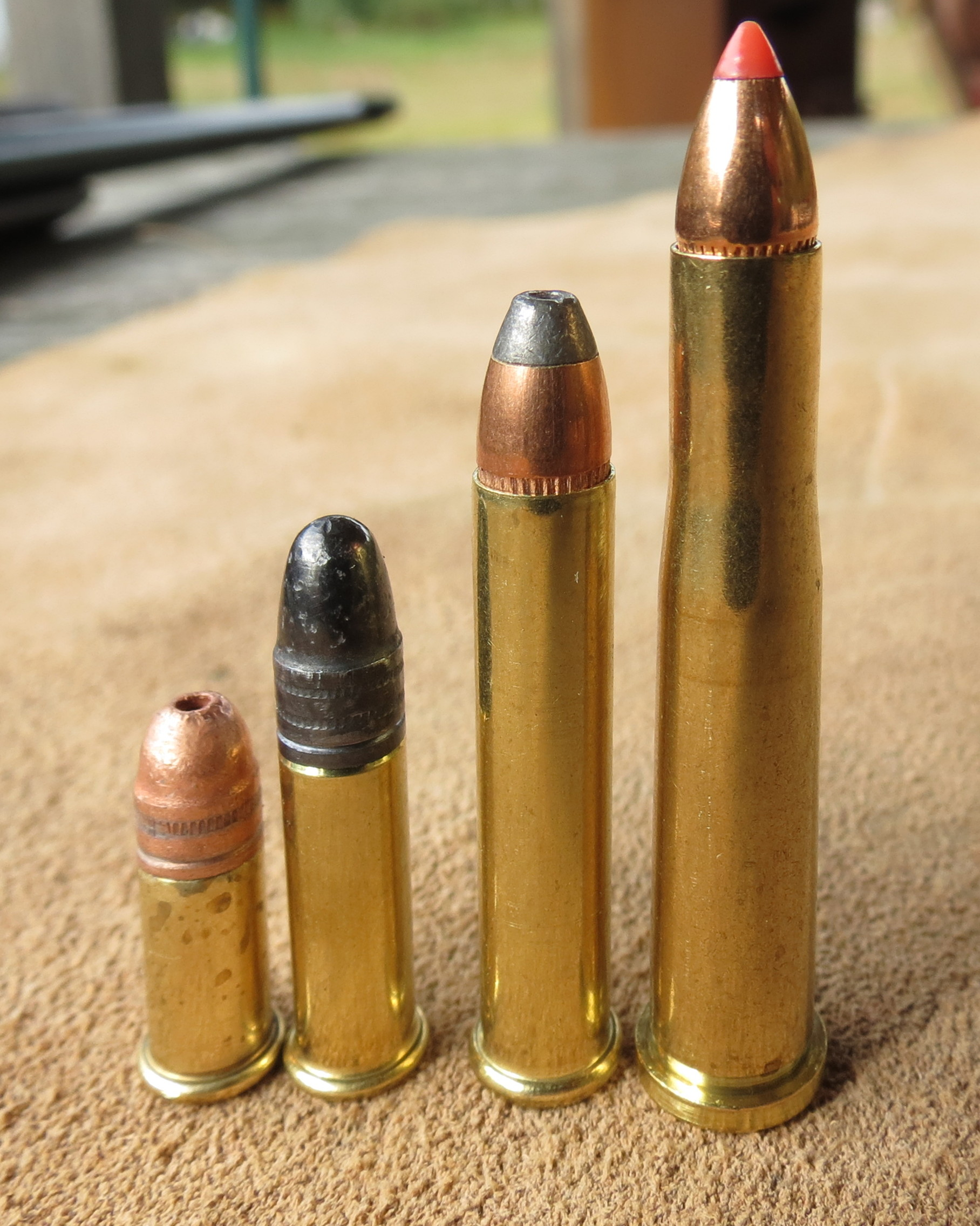 A comparison of 4 different rounds, from left to right they are .22 Short, .22 Long Rifle, .22 Magnum, and .22 Hornet